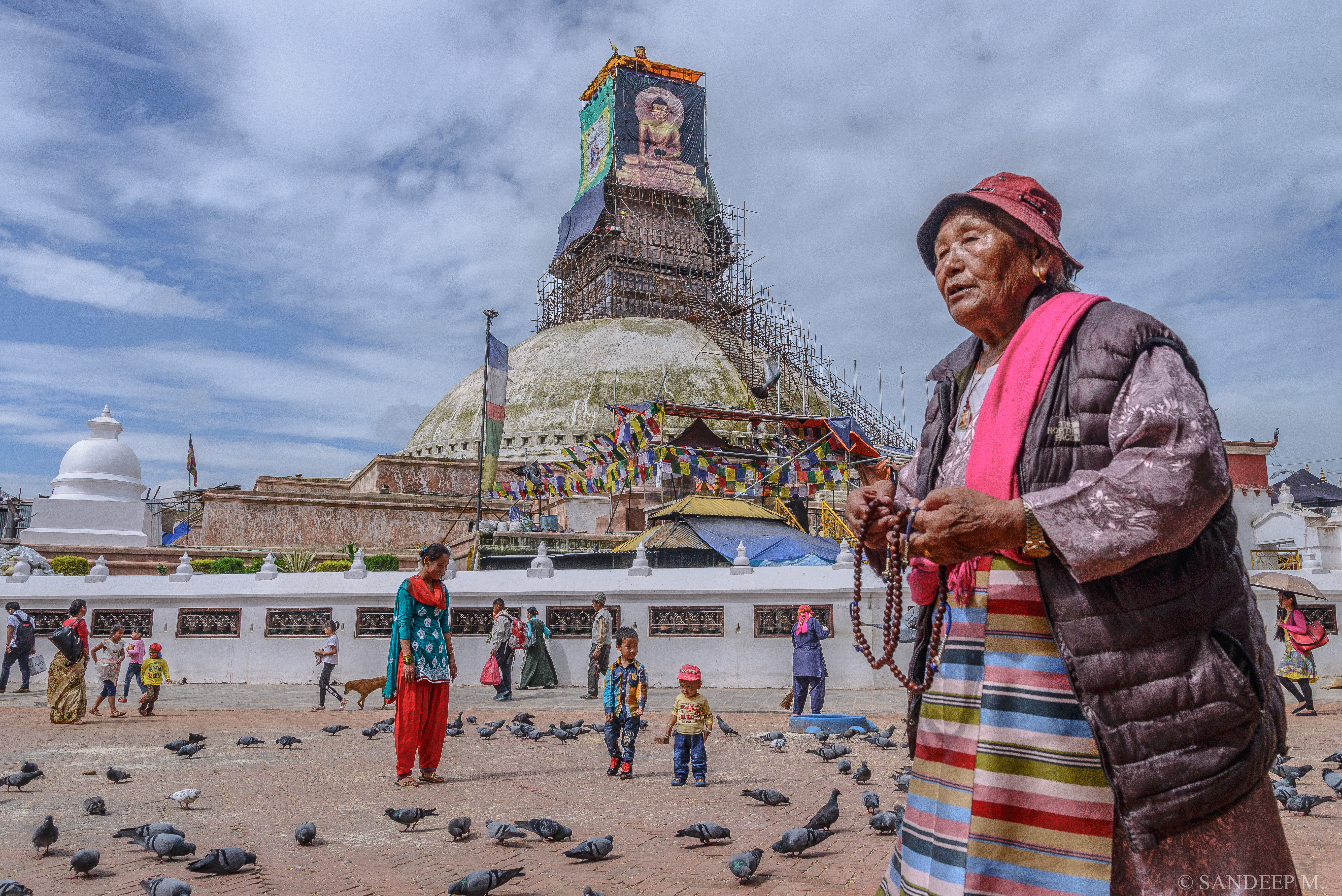 Bauddha Naht